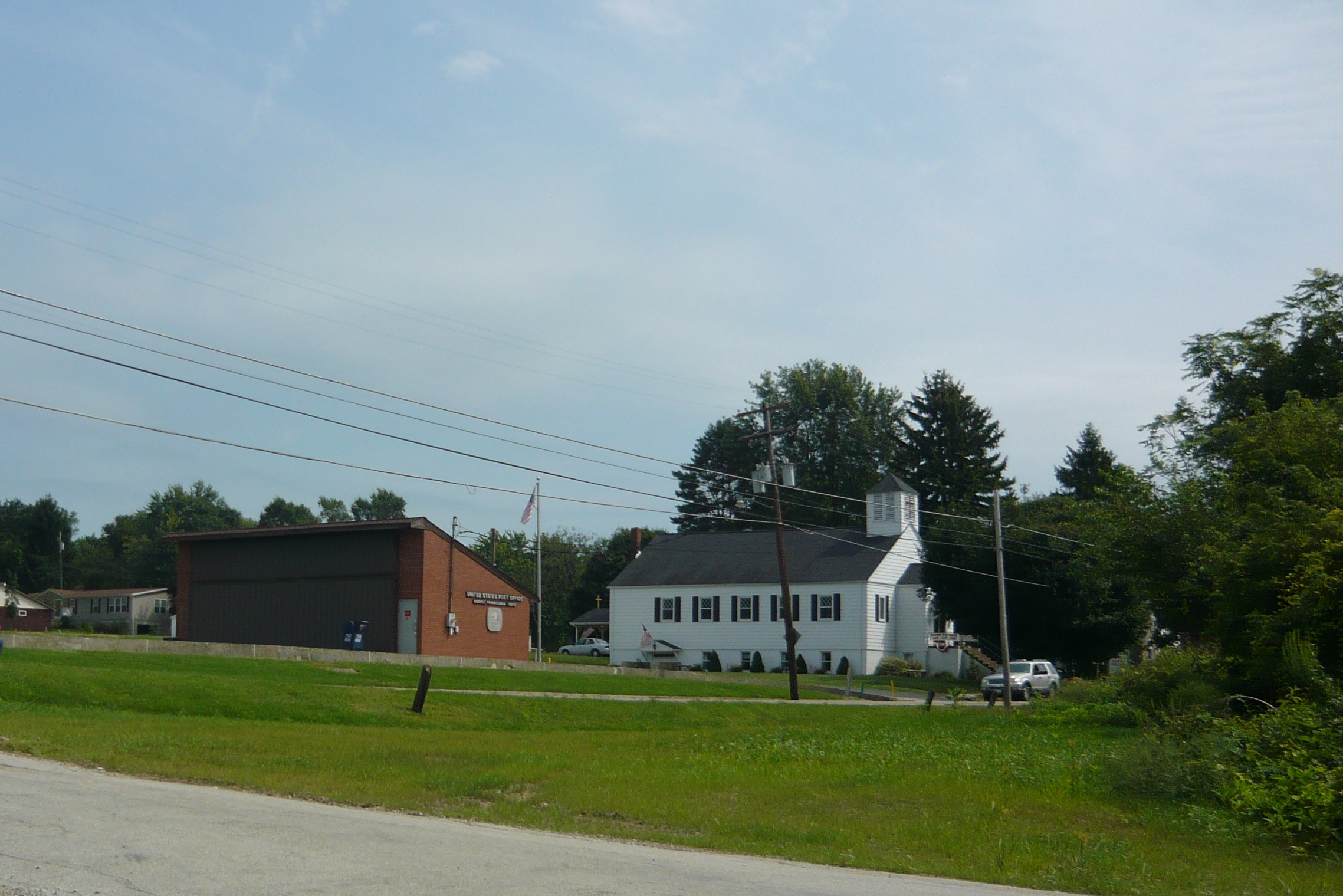 Business district of Norvelt, Mount Pleasant Township, Westmoreland County, Pennsylvania. Red brick building on left is US Post Office. The white church on the right is Norvelt Union Church, built 1950. Photo taken from intersection of Iris Lane and Mount Pleasant Road (State Route 2021), looking southwesterly.